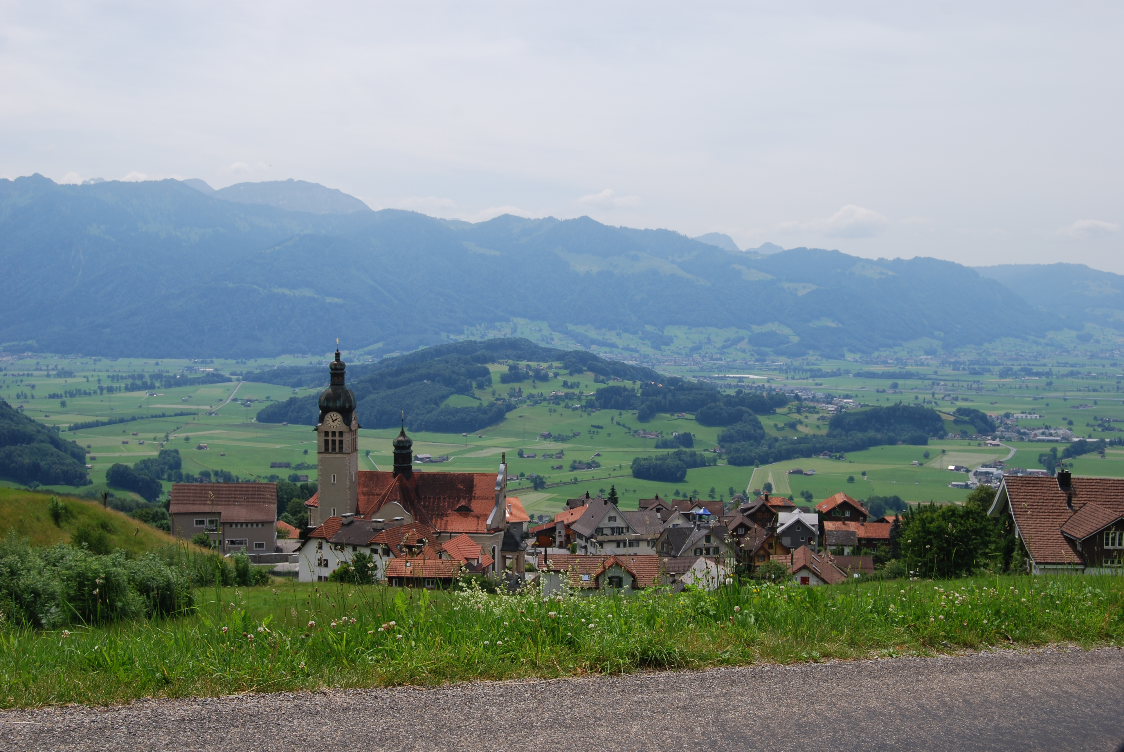 Rieden, canton of St. Gallen, SwitzerlandEsperanto: Rieden, Kantono Sankt-Galo, Svislando